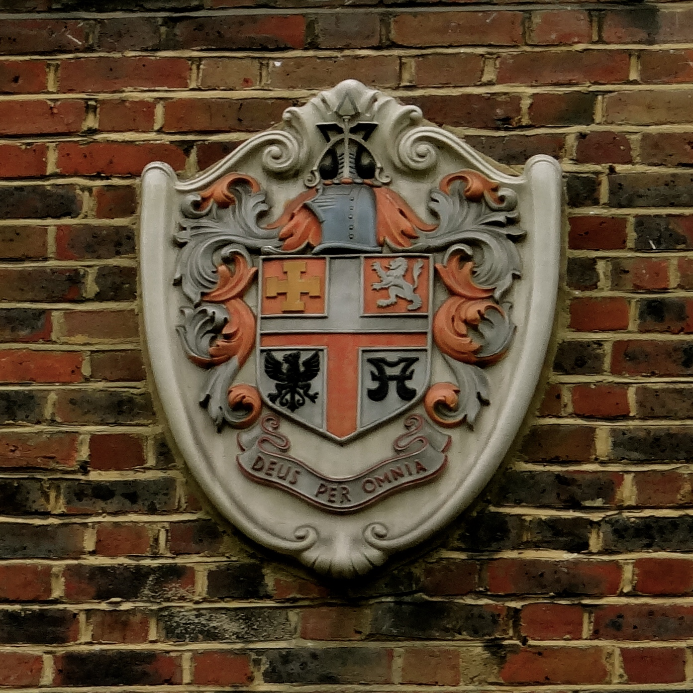 Coat of Arms of the (former) Municipal Borough of Islington, shown affixed to Orwell Court (municipal housing in Petherton Road, London N5).